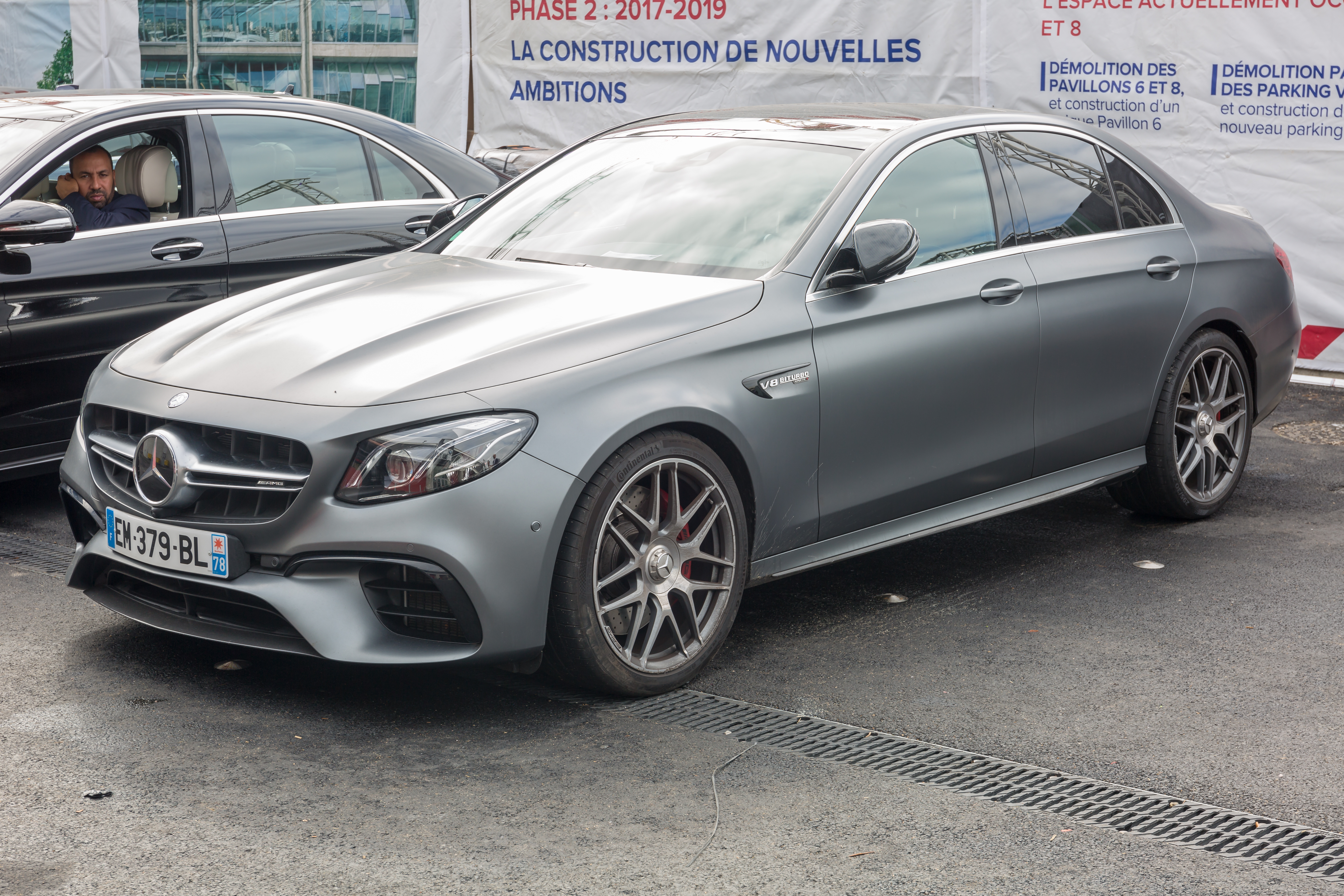 Mercedes-AMG E 63 S, Mondiale Paris Motor Show 2018